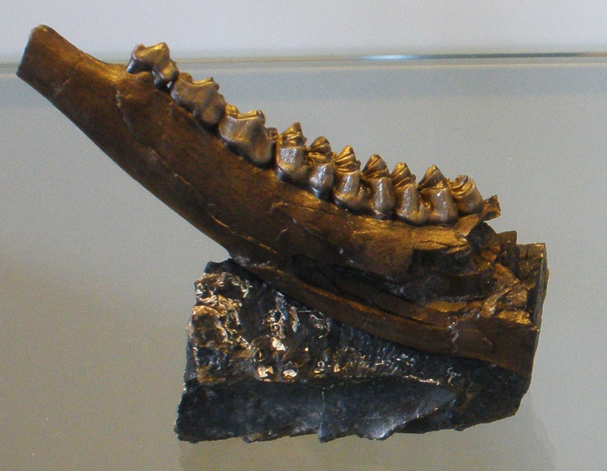 fossil Amphitragulus